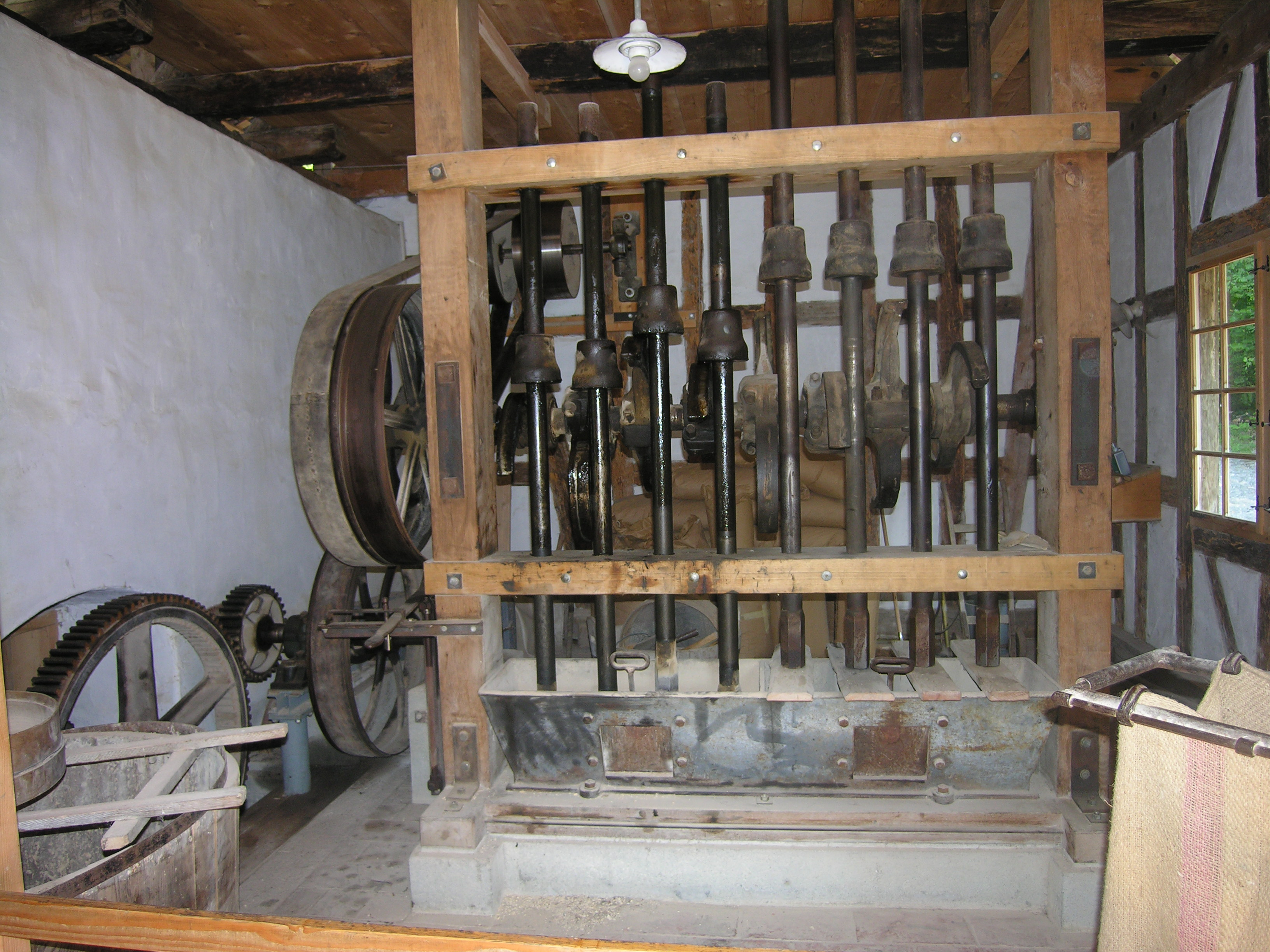 Bone crusher (crushes animal bones into pulver which is used as fertilizer). Water wheel povered. Ballenberg, Switzerland.